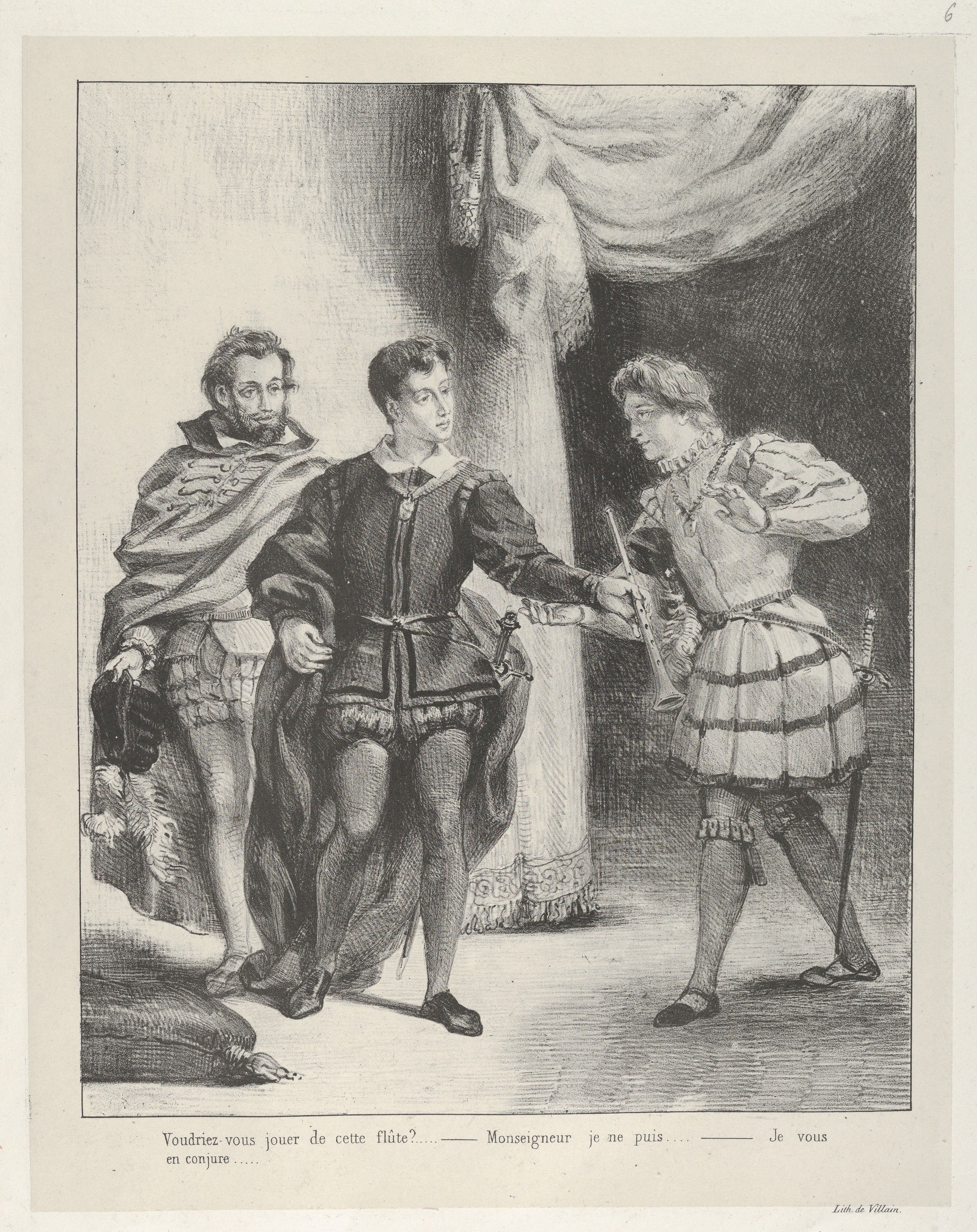 Print; Prints